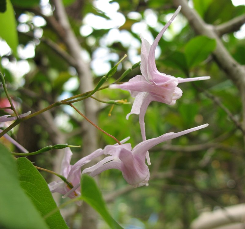 Photograph of Epimedium grandiflorum(flowers - side view).